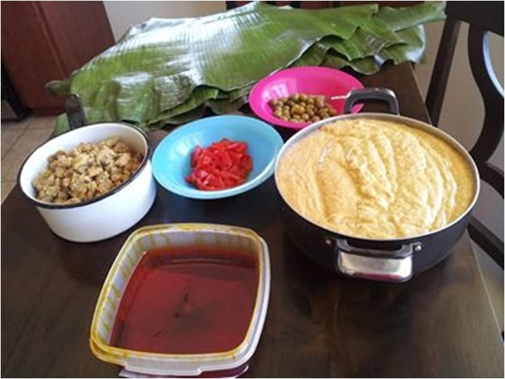 Ingredients that go into making Puerto Rico pasteles.